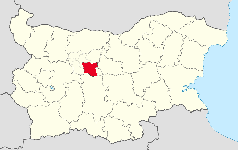 Location map of Troyan Municipality within Bulgaria and Lovech Province. Equirectangular projection, N/S stretching 130 %. Geographic limits of the map: N: 44.4° N S: 41.1° N W: 22.1° E E: 28.9° E